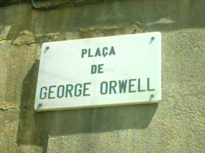 Placa George Orwell Barcelona Spain